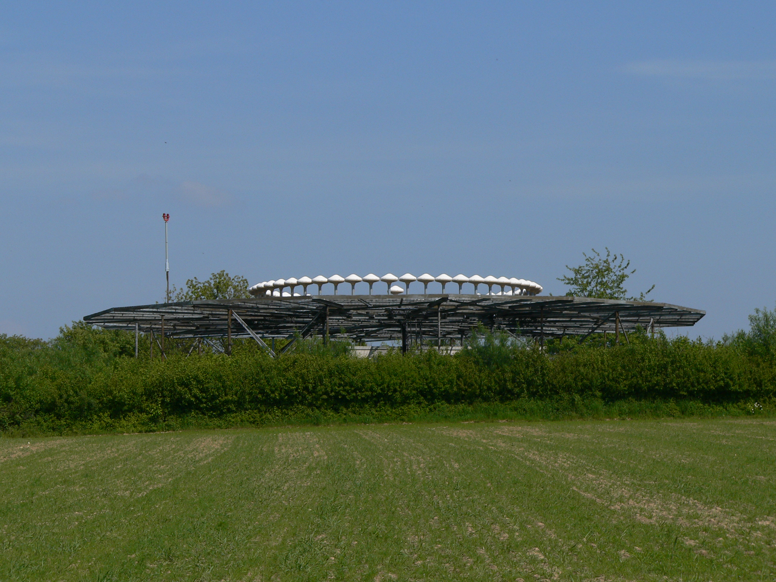 VOR-DME KRH (Karlsruhe, Germany), located at Wöschbach. VOR, short for VHF Omni-directional Range, is a type of radio navigation system for aircraft.